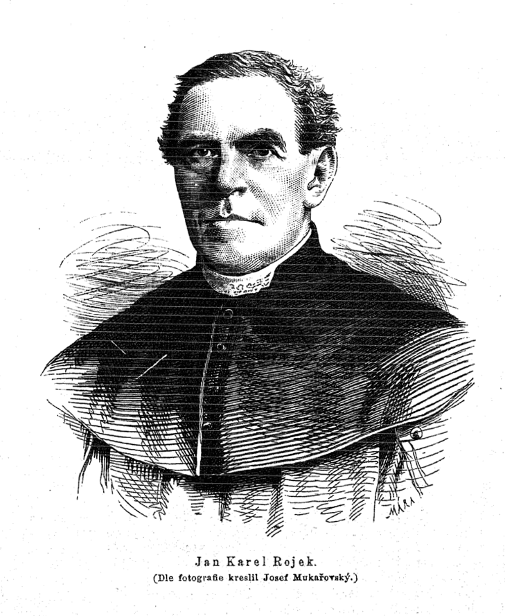 Portrait of Jan Karel Rojek (1804-1877), Czech priest, promoter of schools and politician.